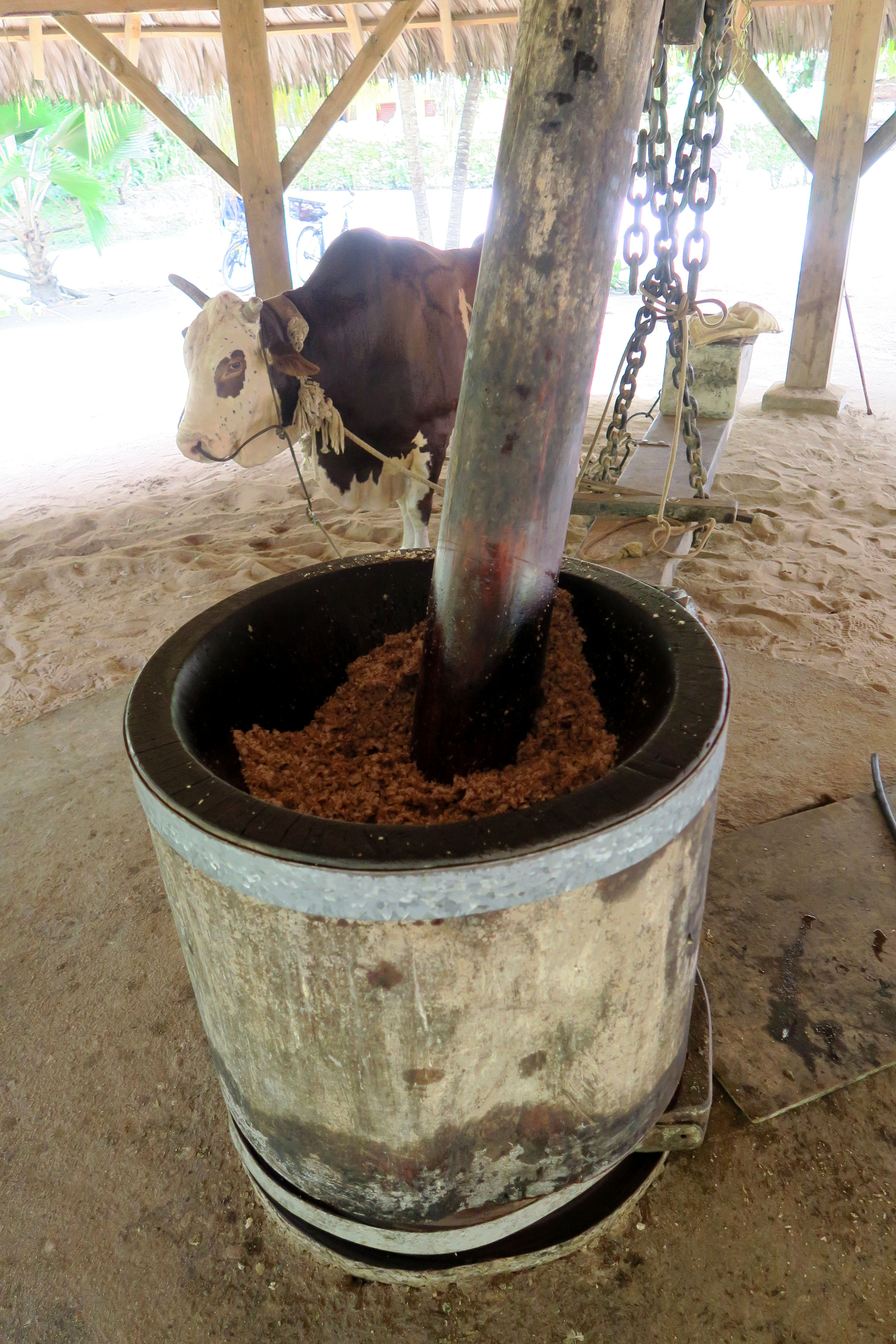 Crushing copra in La Digue (Seychelles).